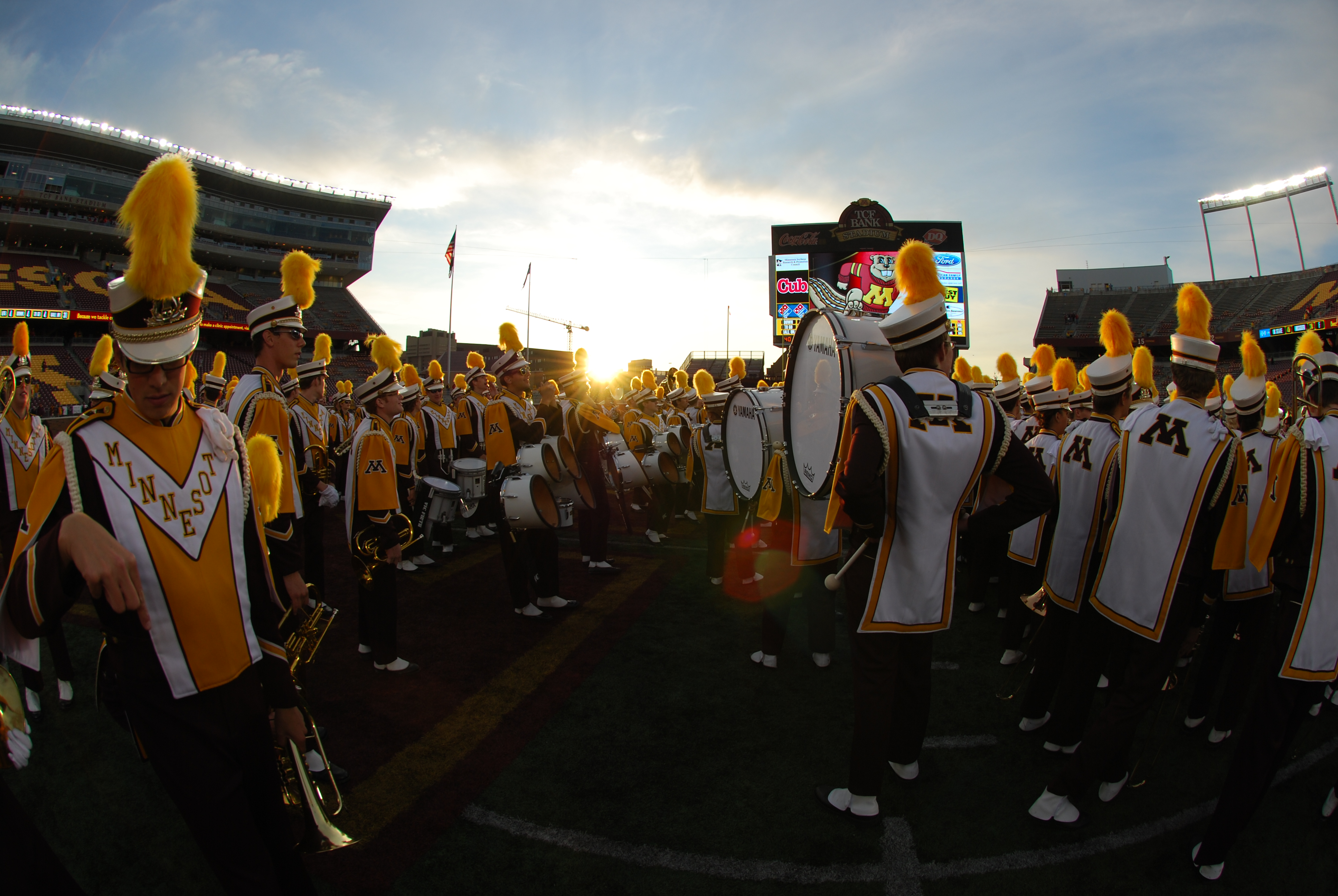 The University of Minnesota Marching Band on the field at TCF Bank Stadium during the post game show.